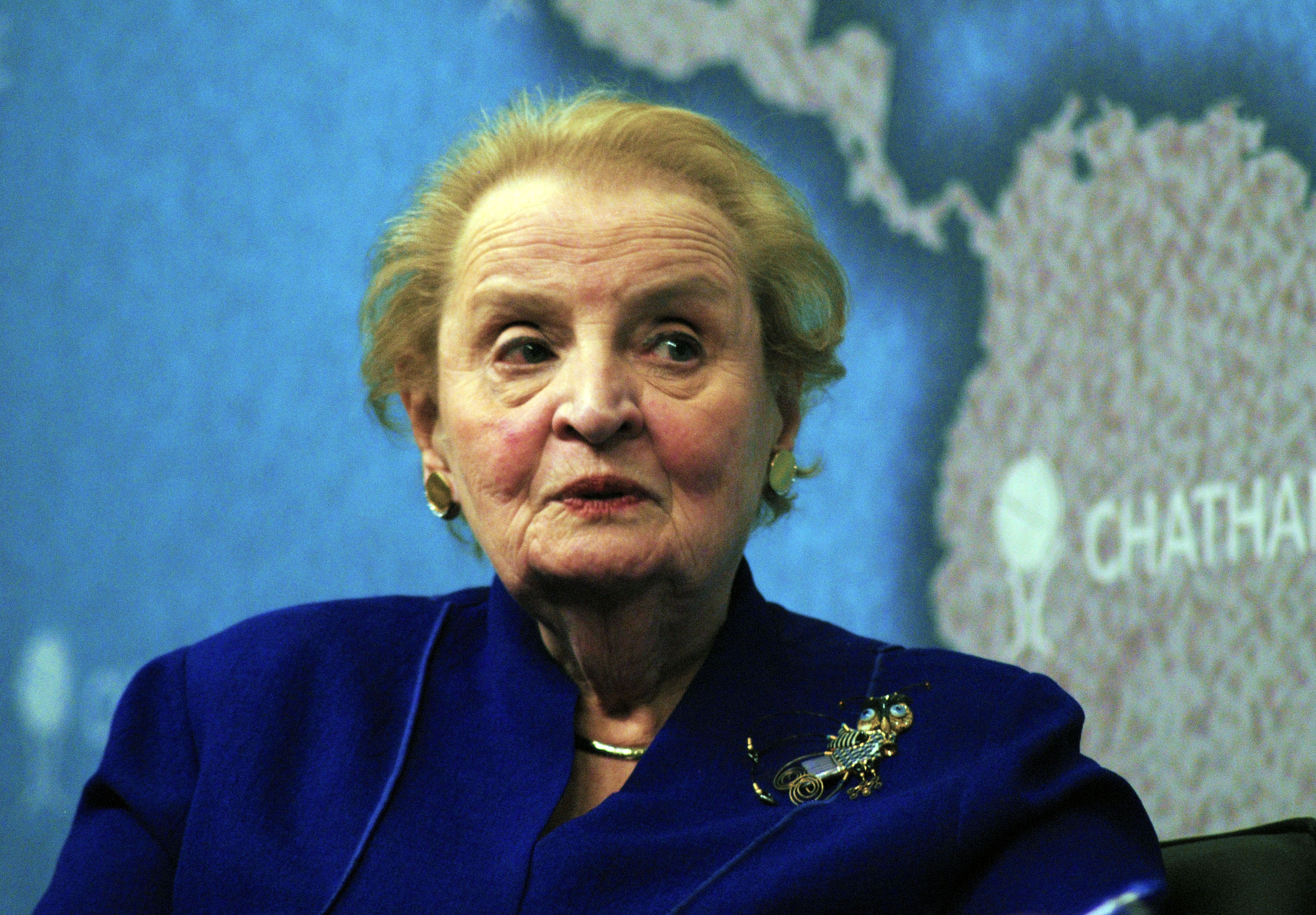 The Power of Diplomacy, 19 April 2013 cht.hm/175qNgP